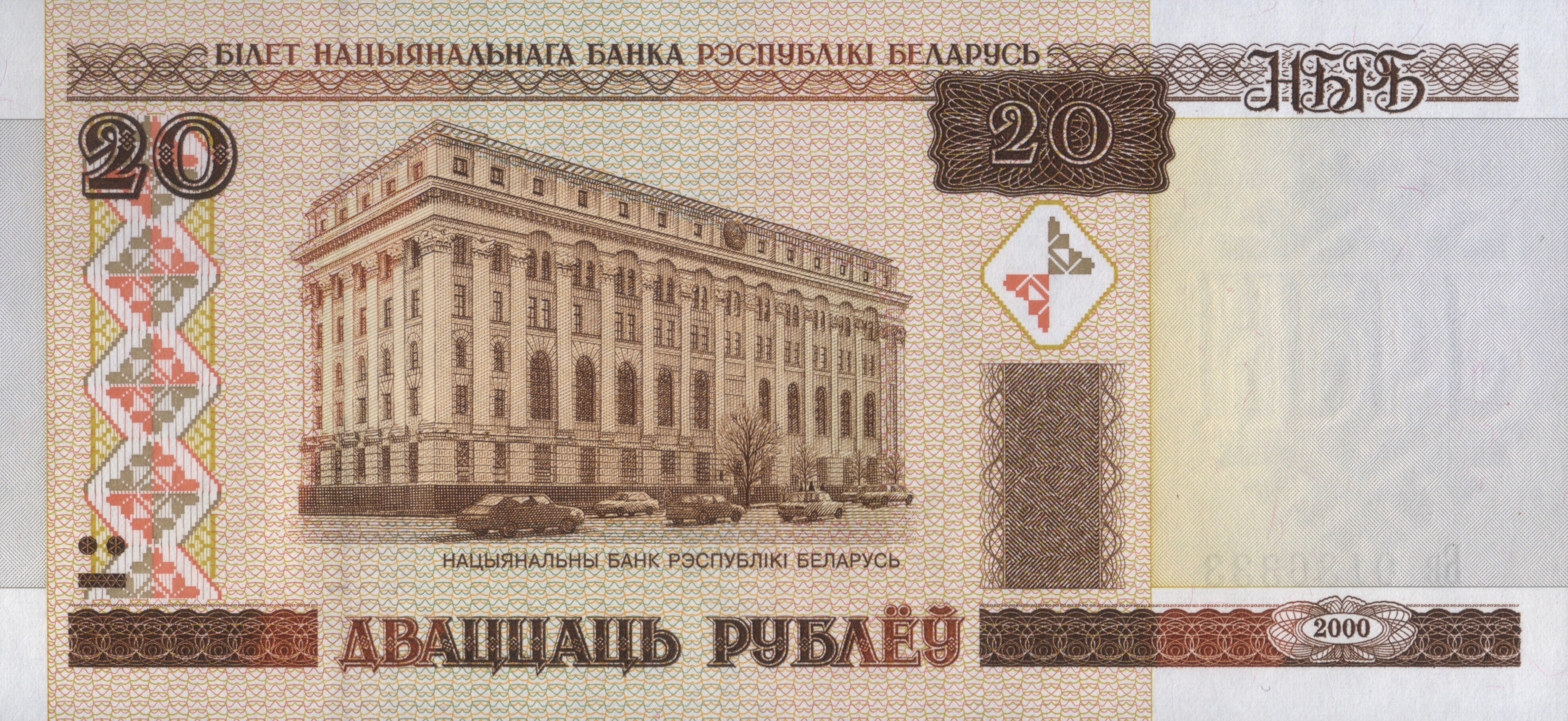 20 roubles of Belarus (2000)